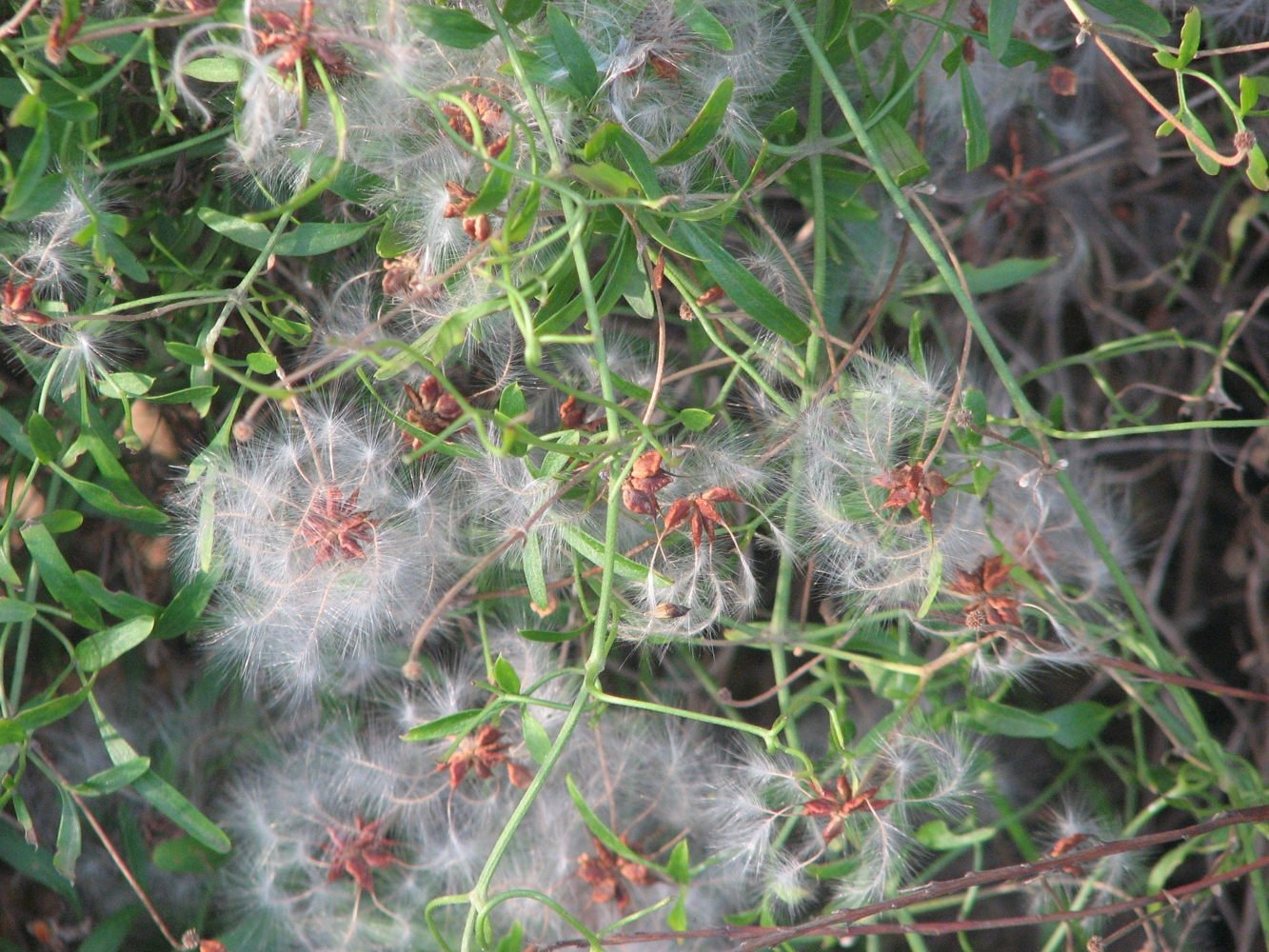 Clematis microphylla (cultivated, labelled) Royal Botanic Gardens, Melbourne, Australia